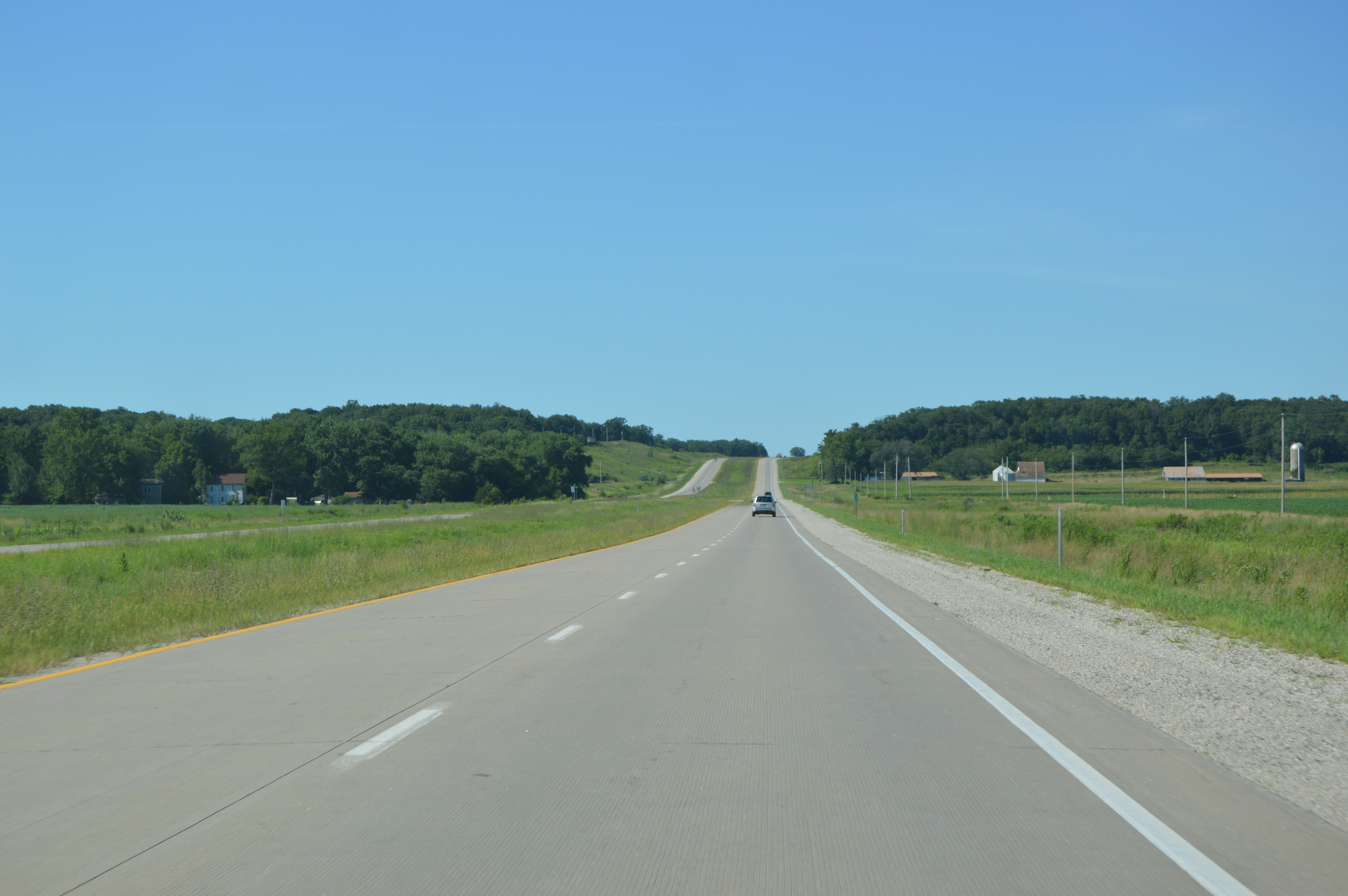 Northbound lanes of Iowa Highway 27, the Avenue of the Saints, just south of the 320th Street interchange in Des Moines Township, Lee County, Iowa, United States.